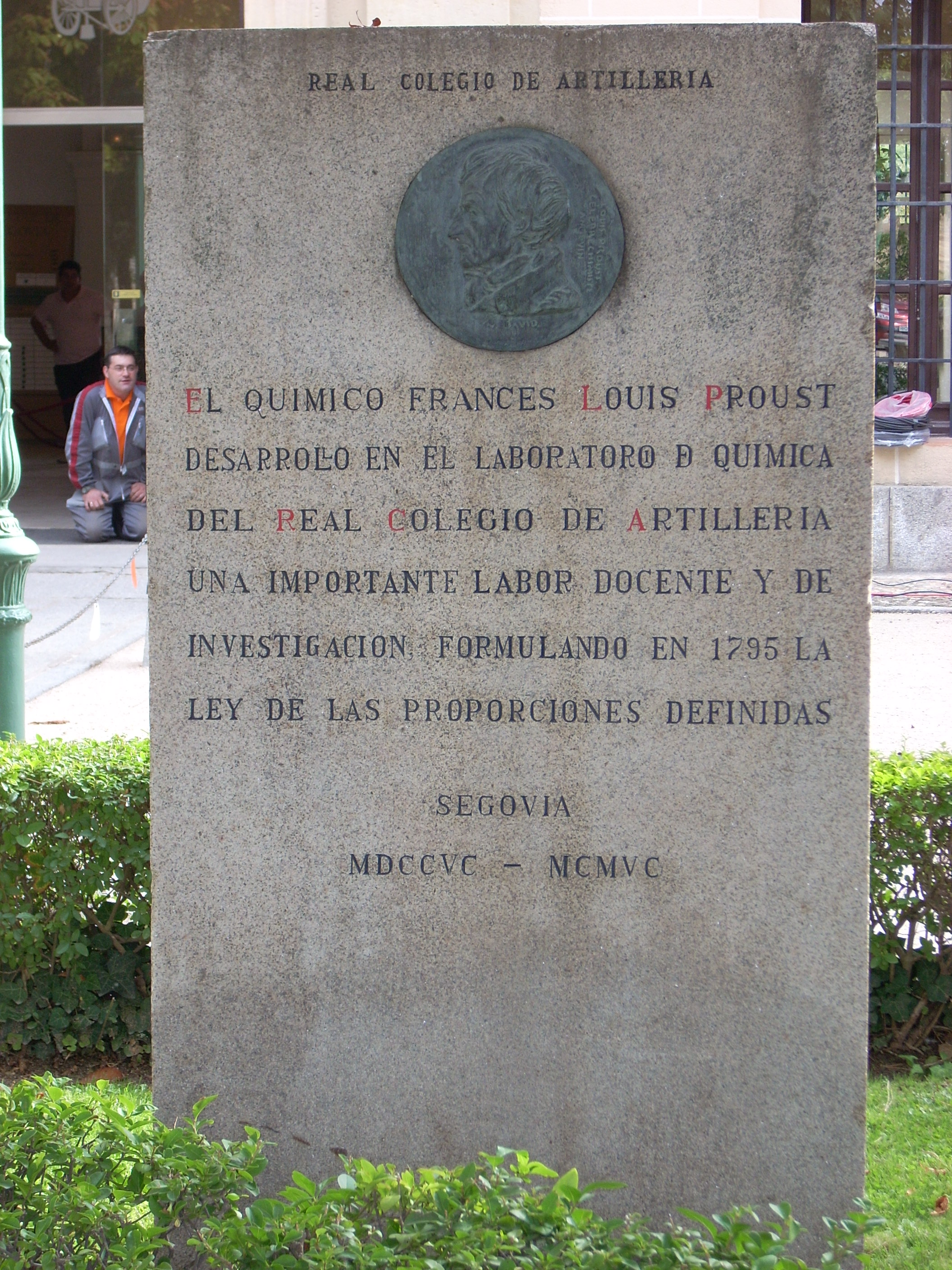 Monument to Louis Proust, Royal College of Artillery, Segovia, Spain